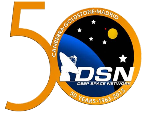 On December 24, 1963 a memo from Dr. William H. Pickering, the then Director of the Jet Propulsion Laboratory was sent to the senior staff. This memo established the Deep Space Network (DSN) combining the responsibilities of the Deep Space Instrumentation Facility, interstation communications, and multi-mission components of the Space Flight Operations Facility.